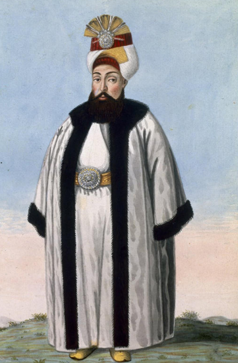 Portrait of Osman III, Sultan of the Ottoman Empire (1754-1757). The portrait has been printed using the Giclée process.